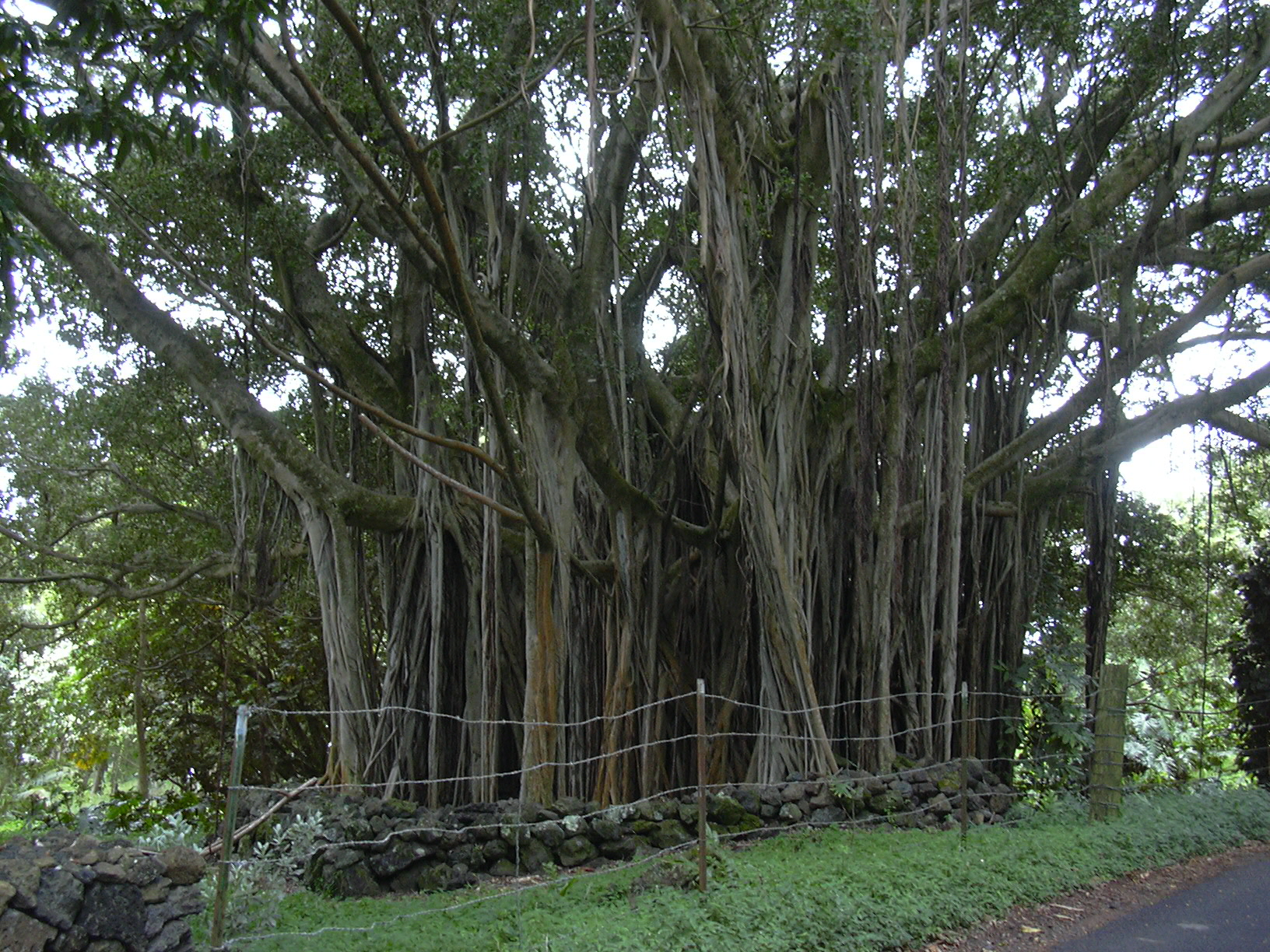 Ficus microcarpa (trunk). Location: Maui, Kipahulu